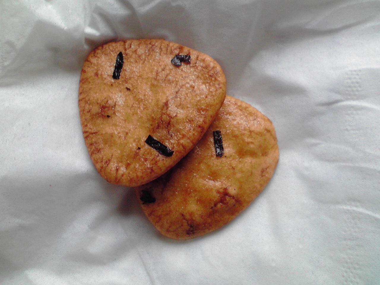 This is the special Rice cracker or Sembei manufactured by Masuya, it is located in Ise,Mie,Japan.